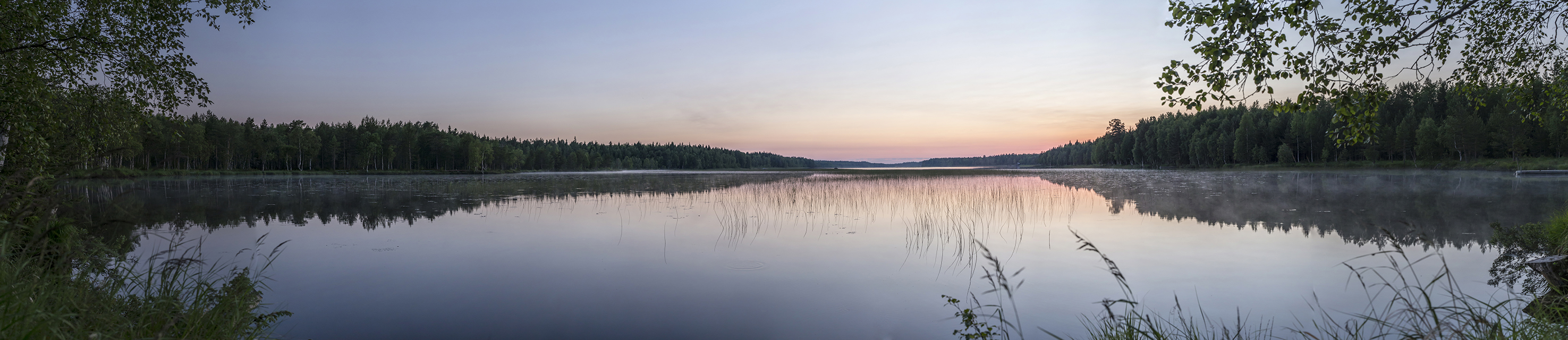 A mosquito filled summer night at Hertsöträsket.